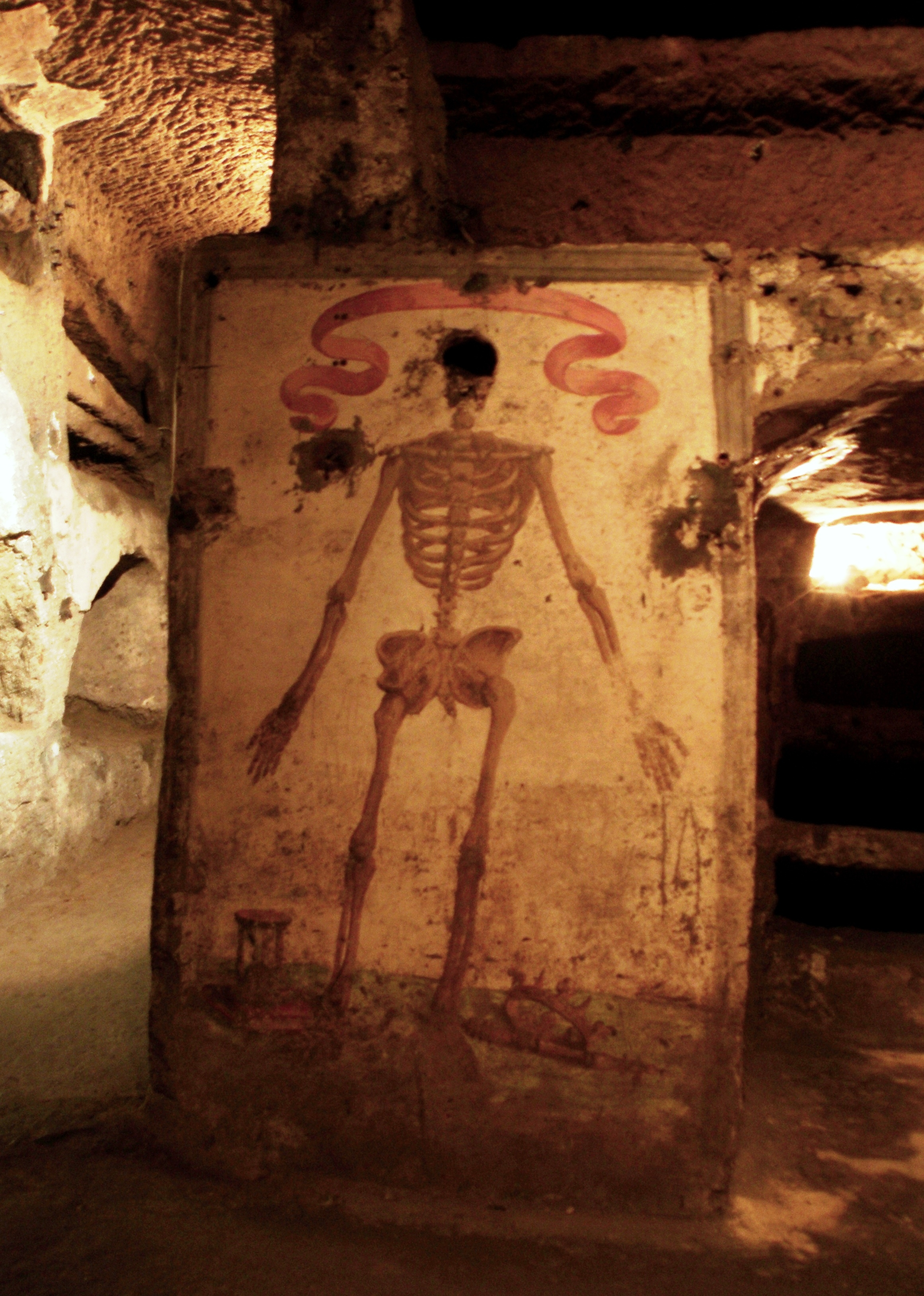 A painting that represents a skeleton (probably the death). Near its feet is an hourglass on a book (on the left) and a crown with scepter (on the right). In the wall that keeps the painting a human skull was recessed in place of the head of the painted skeleton. The painting is located in the San Gaudioso catacombs, under the church of Santa Maria della Sanità in Naples, Italy.